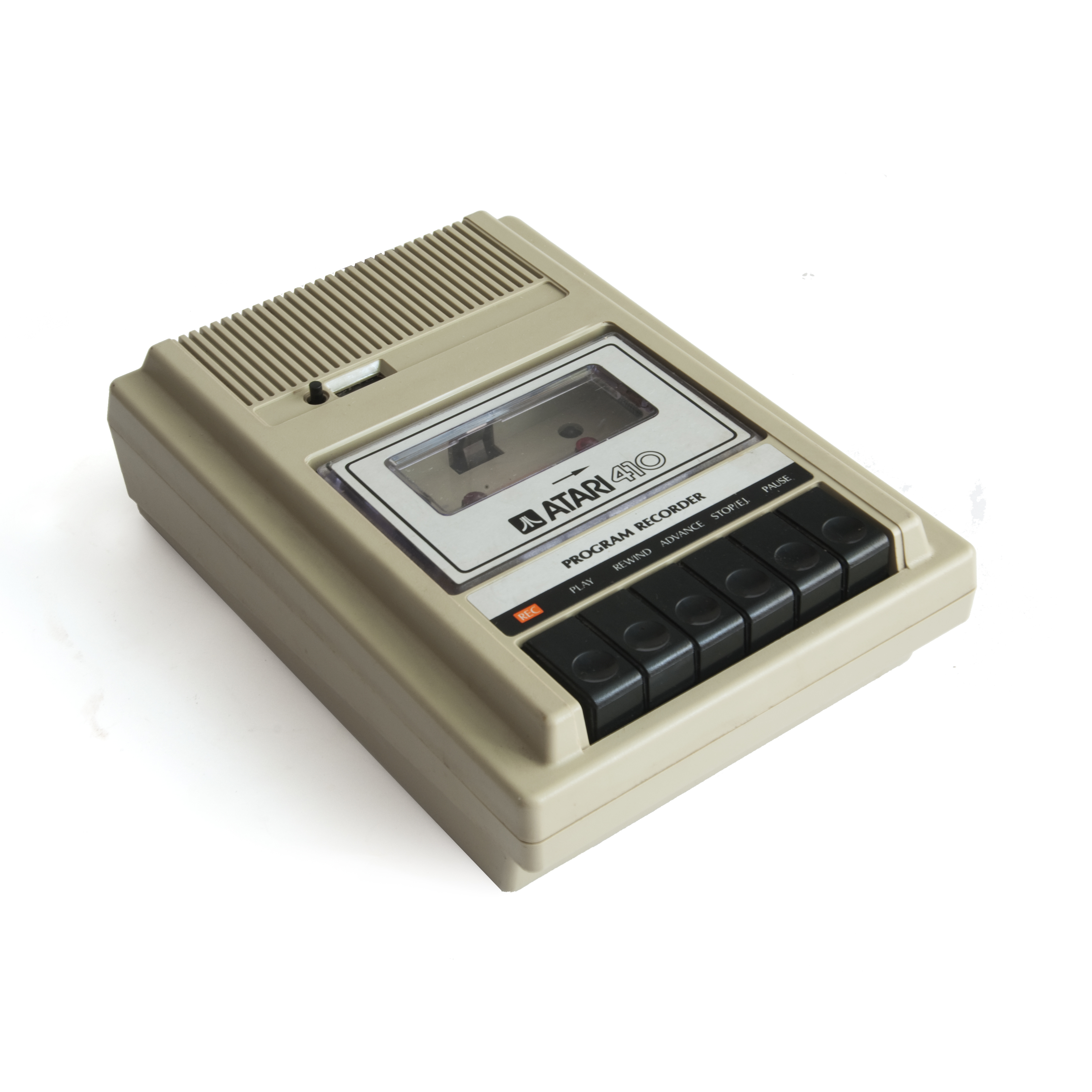 Atari 410 cassette drive for the Atari 400/800 computers. (This is one of the later versions, which is noticably different in appearance to the original 410 models.)[1][2]